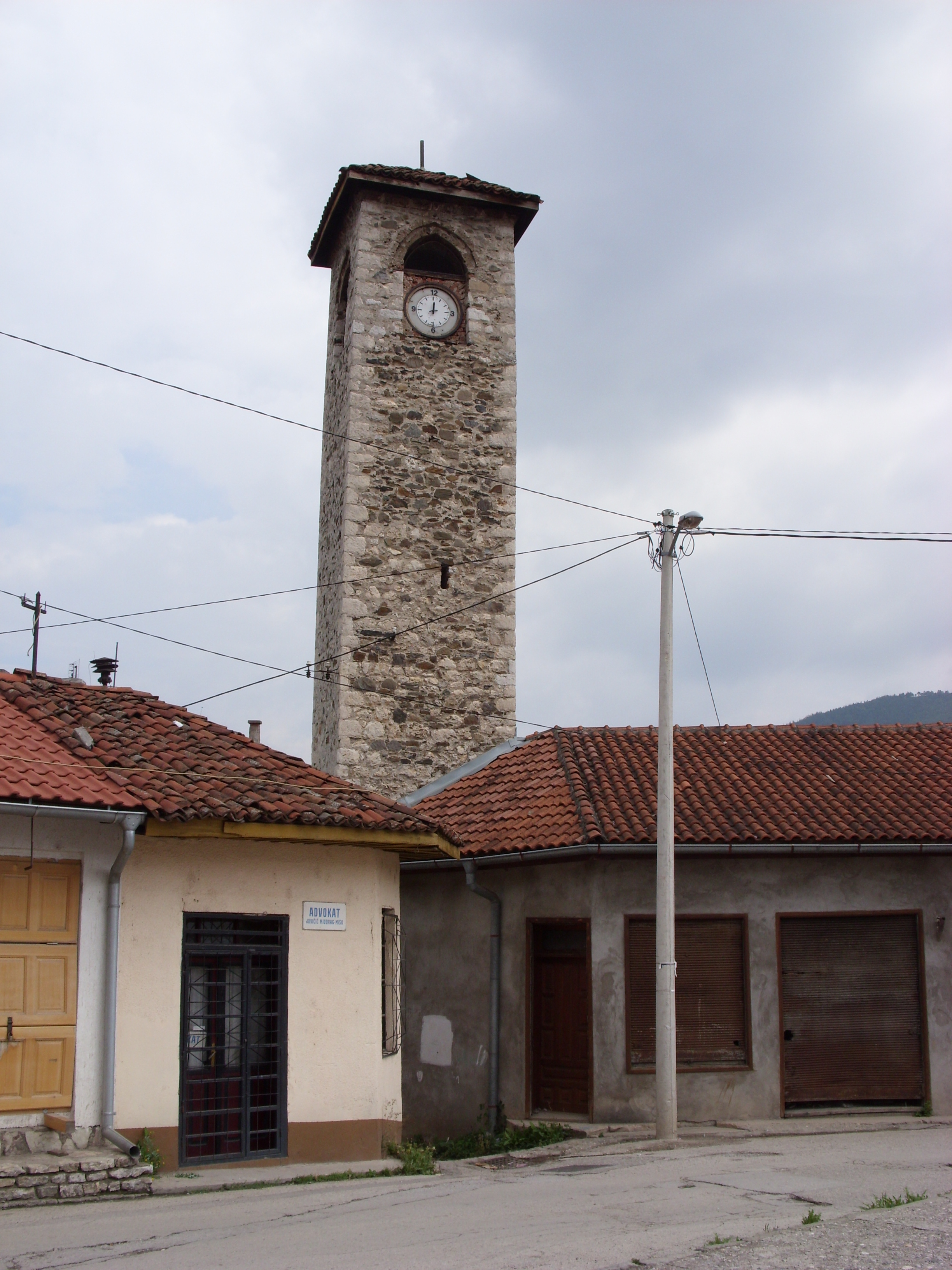 Clock tower in Foča city centre, Bosnia. Hornjoserbsce: Časnikowa wěža w srjedźišću města Foča, Bosniska.